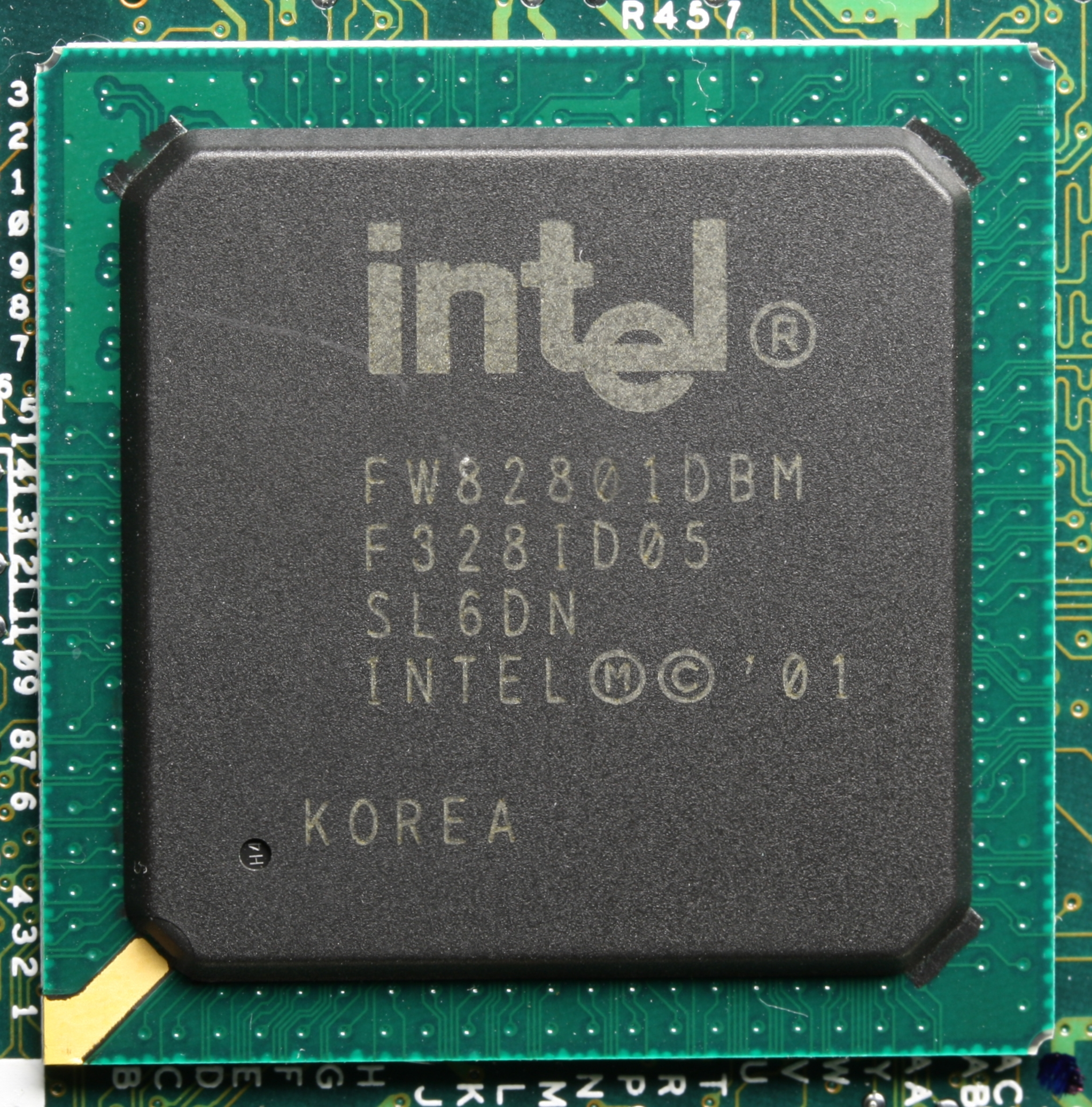 An Intel I/O Controller Hub Southbridge (FW82801DBM)